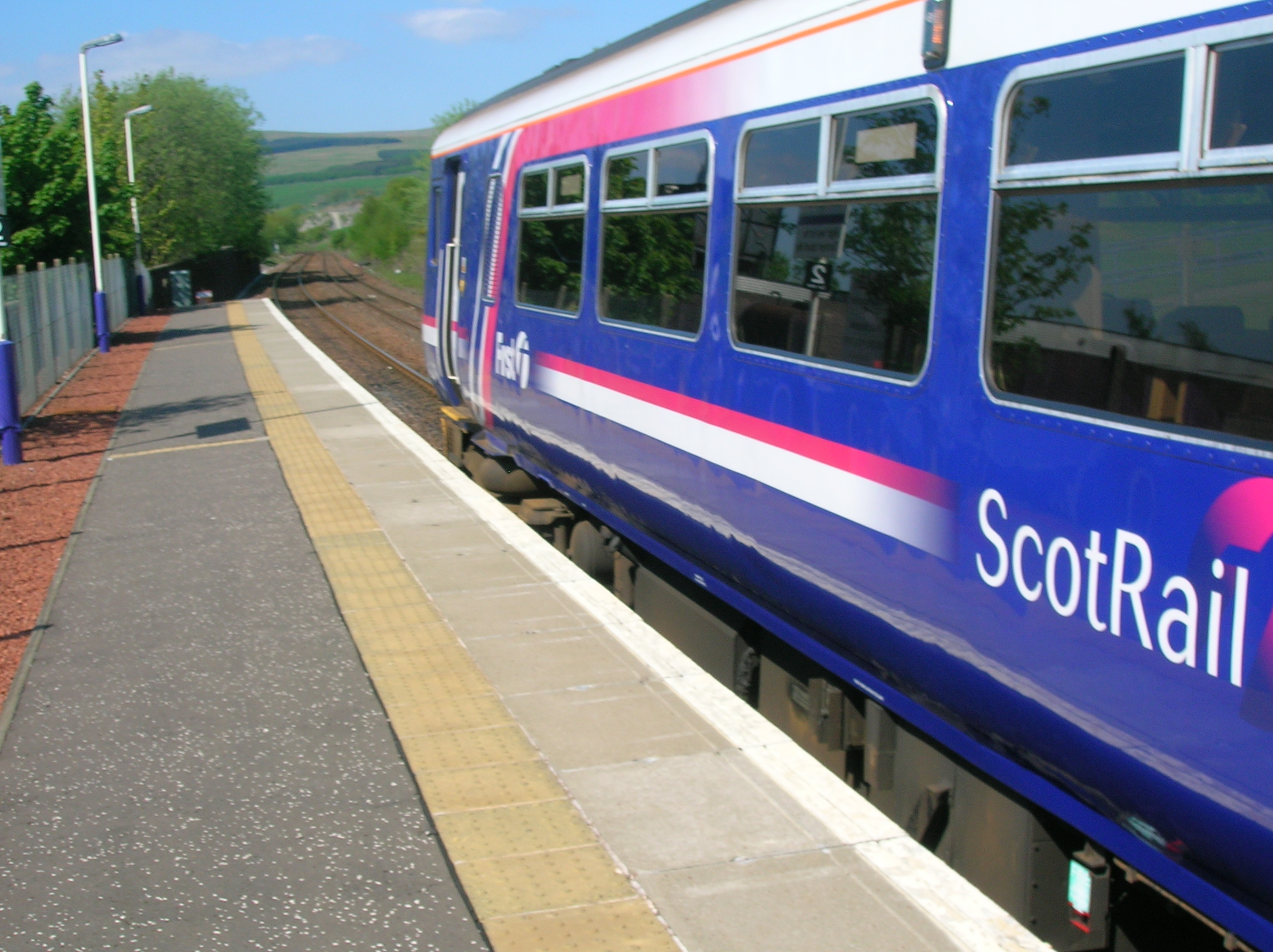 Sanquhar station looking towards Kirkconnel. May 2007. Glasgow - Dumfries - Carlisle line. Rosser 14:50, 4 May 2007 (UTC)